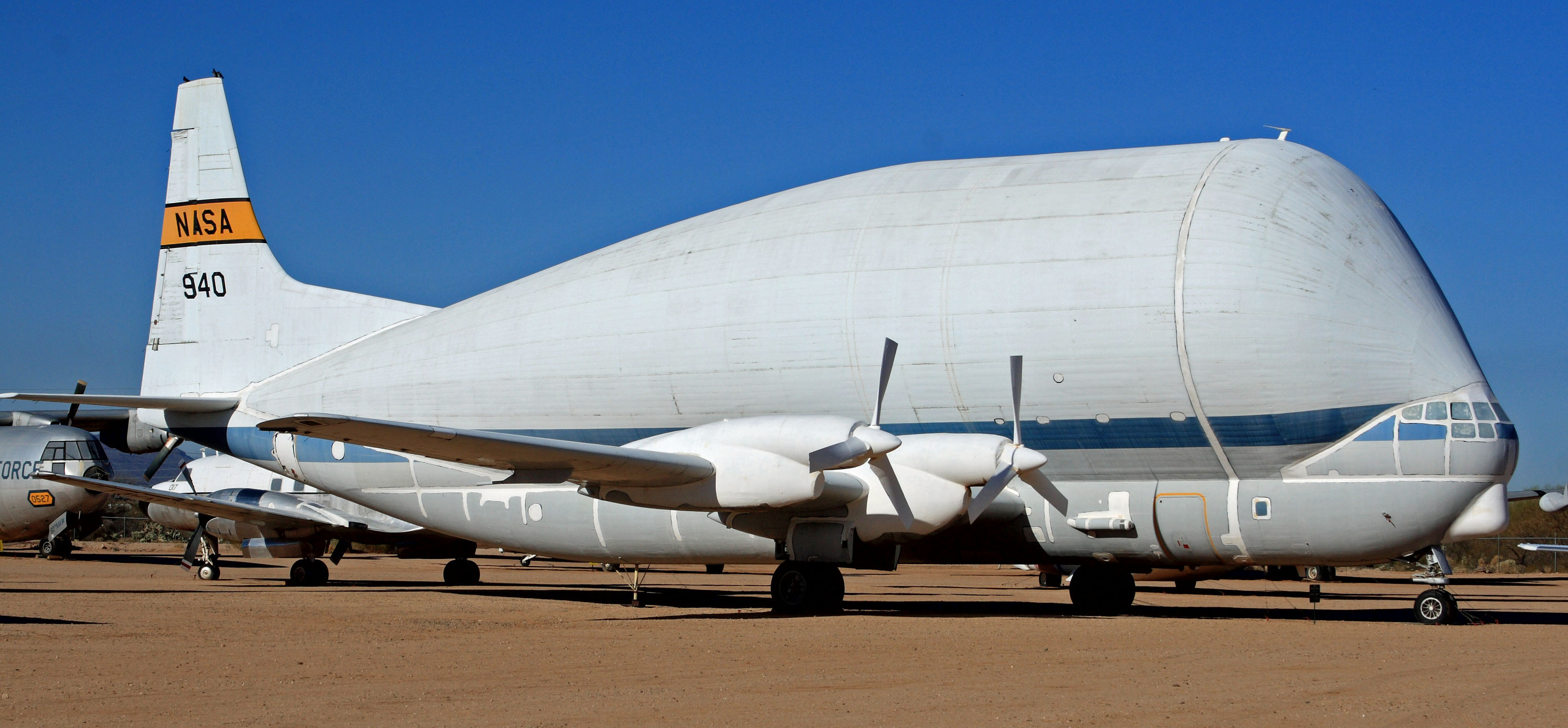 Aero Spacelines B377SG Super Guppy, registration N940NS. On display at Pima Air and Space Museum.